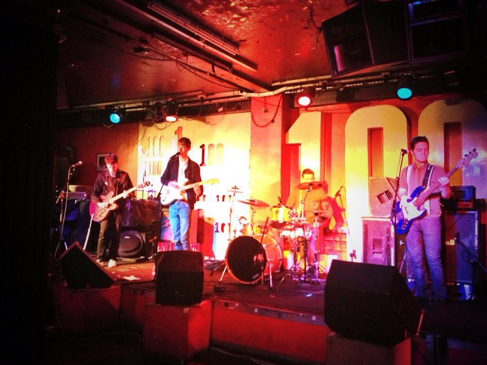 Sisteray performing at the 100 Club.jpg